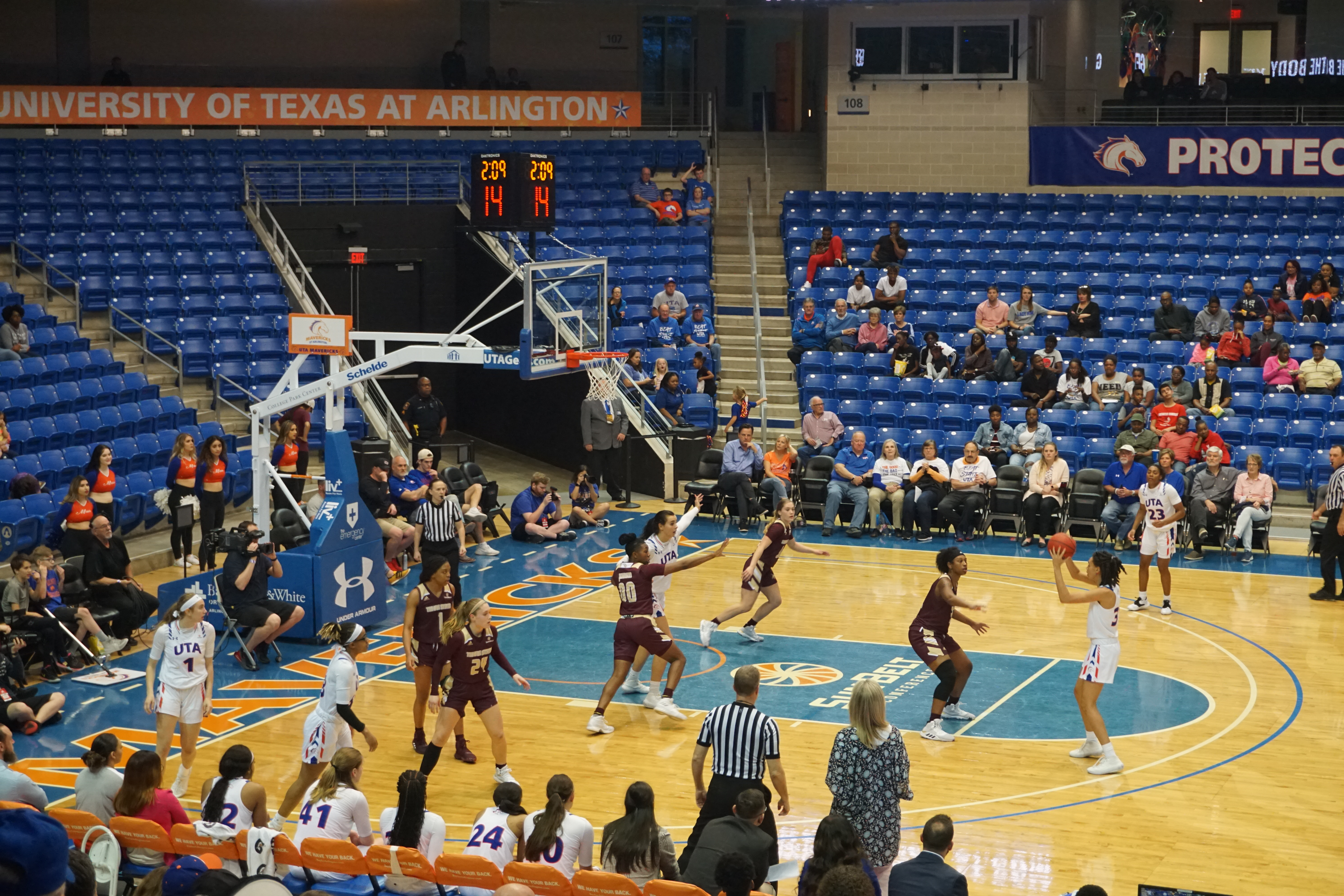 In-game action during the Texas State Bobcats vs. UT Arlington Mavericks women's basketball game at the 2020 Sun Belt Conference Women's Basketball Tournament at College Park Center in Arlington, Texas (United States). UT Arlington won 74–50.